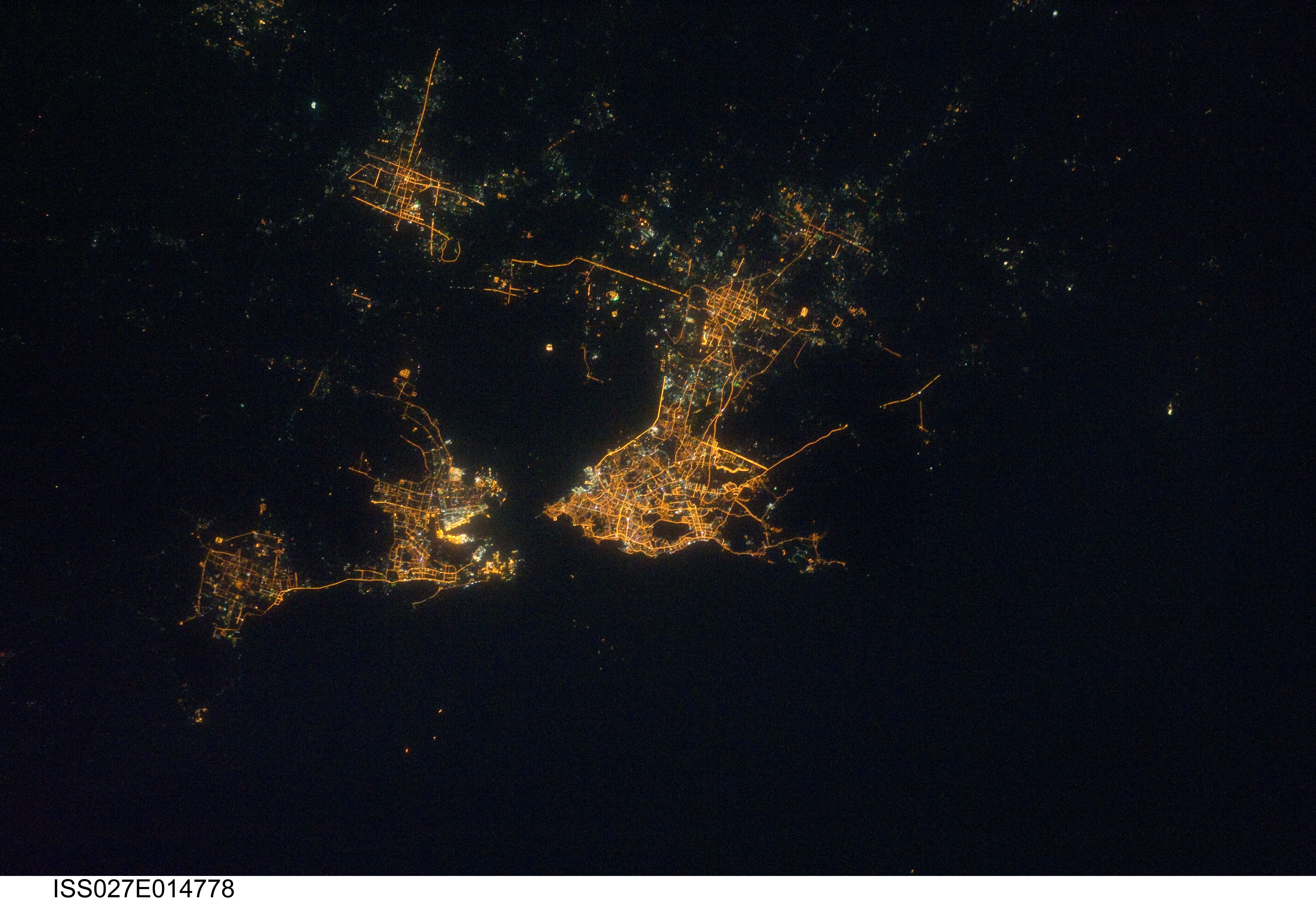 Urban area of Qingdao at night (NASA)